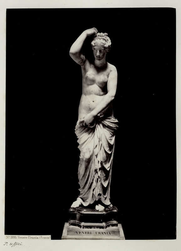 Giorgio Sommer (1834-1914) - "Venus urania (Florence)". Catalogue # 1895.